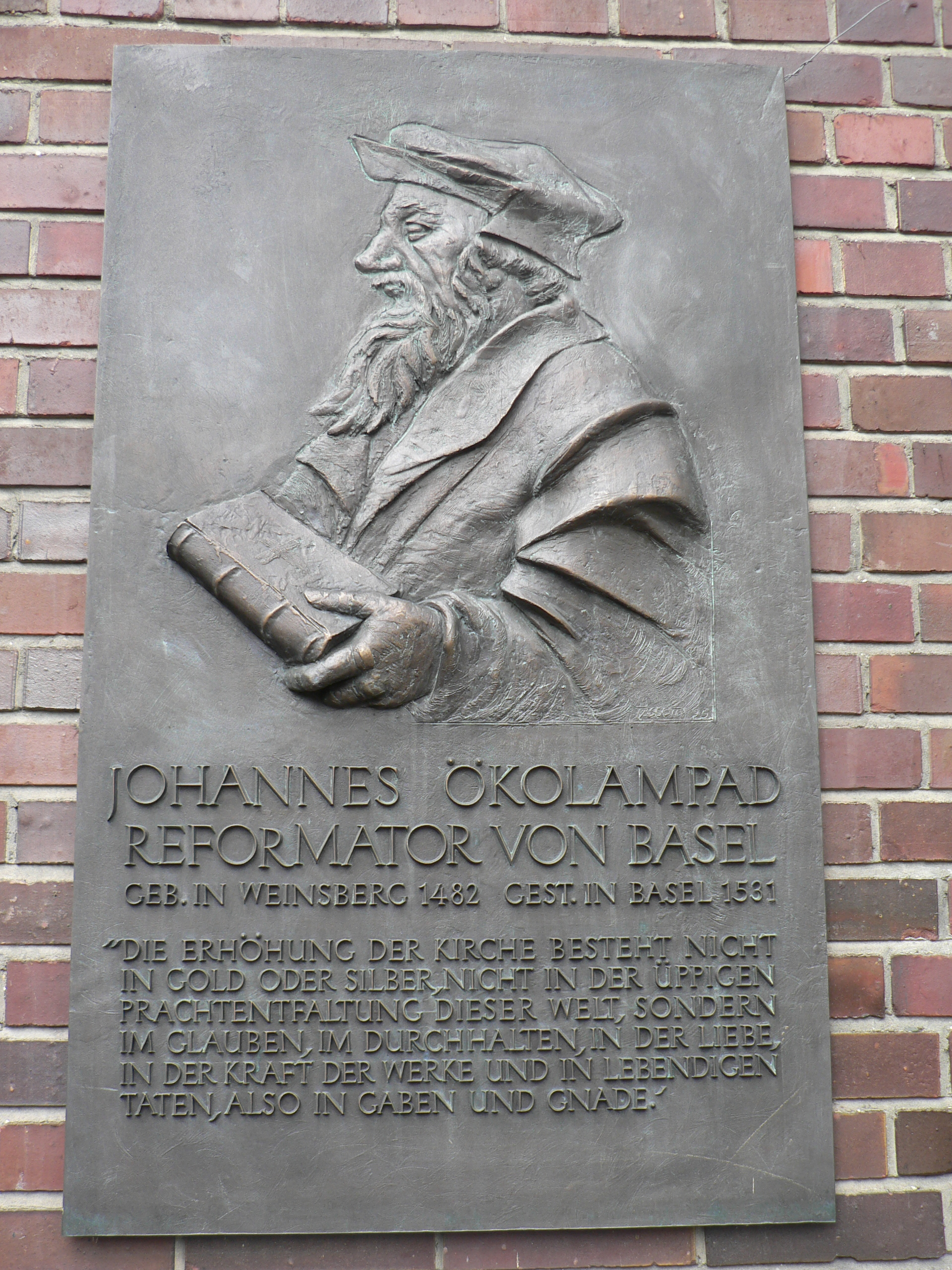 Commemorative plaque for Johannes Oecolampadius by Kurt Tassotti in Basel